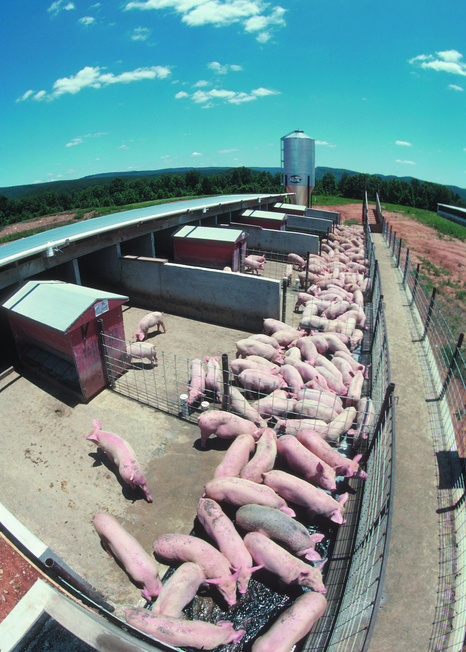 Finishing hogs on a farm in central Arkansas.